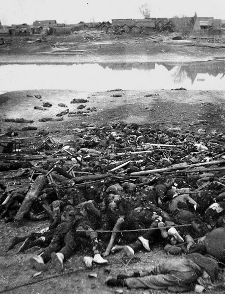 Photo in the album taken in Nanjing by Itou Kaneo of the Kisarazu Air Unit of the Japanese Navy during Nanjing Massacre, recording the atrocities committed by the Japanese Army.